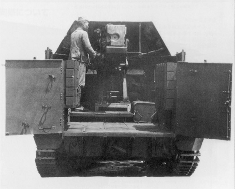 Rear view of Type 5 Na-To, showing gun mount, armor shield and armor plates